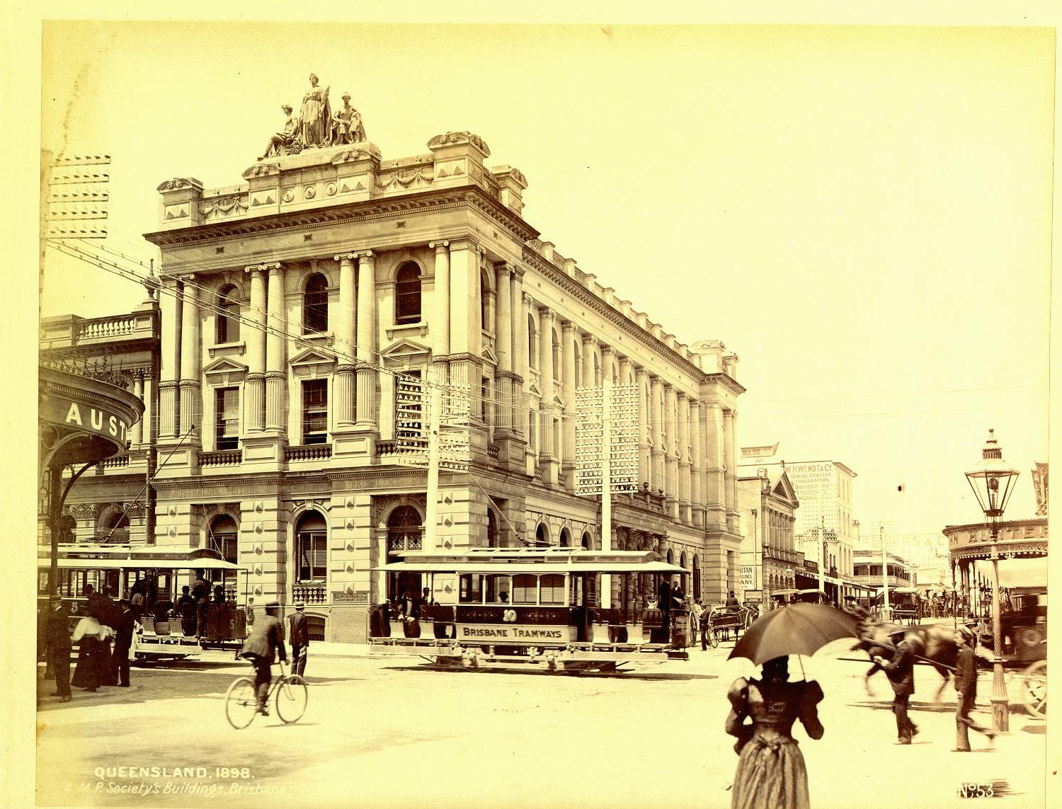 AMP Society's Building, corner Edward and Queen Streets Brisbane.